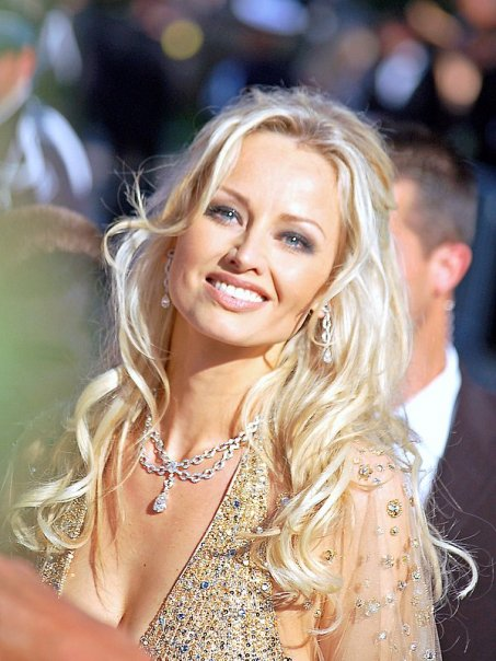 Adriana Karembeu, slovak supermodel, at the Cannes Film Festival